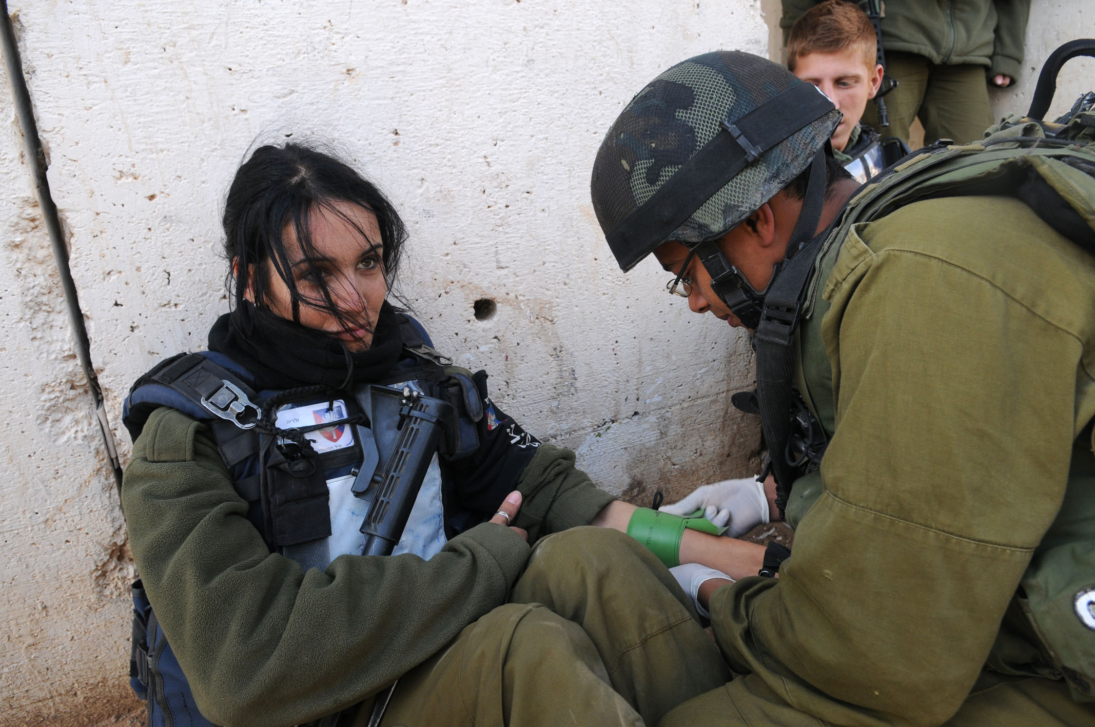 A soldier gets first aid